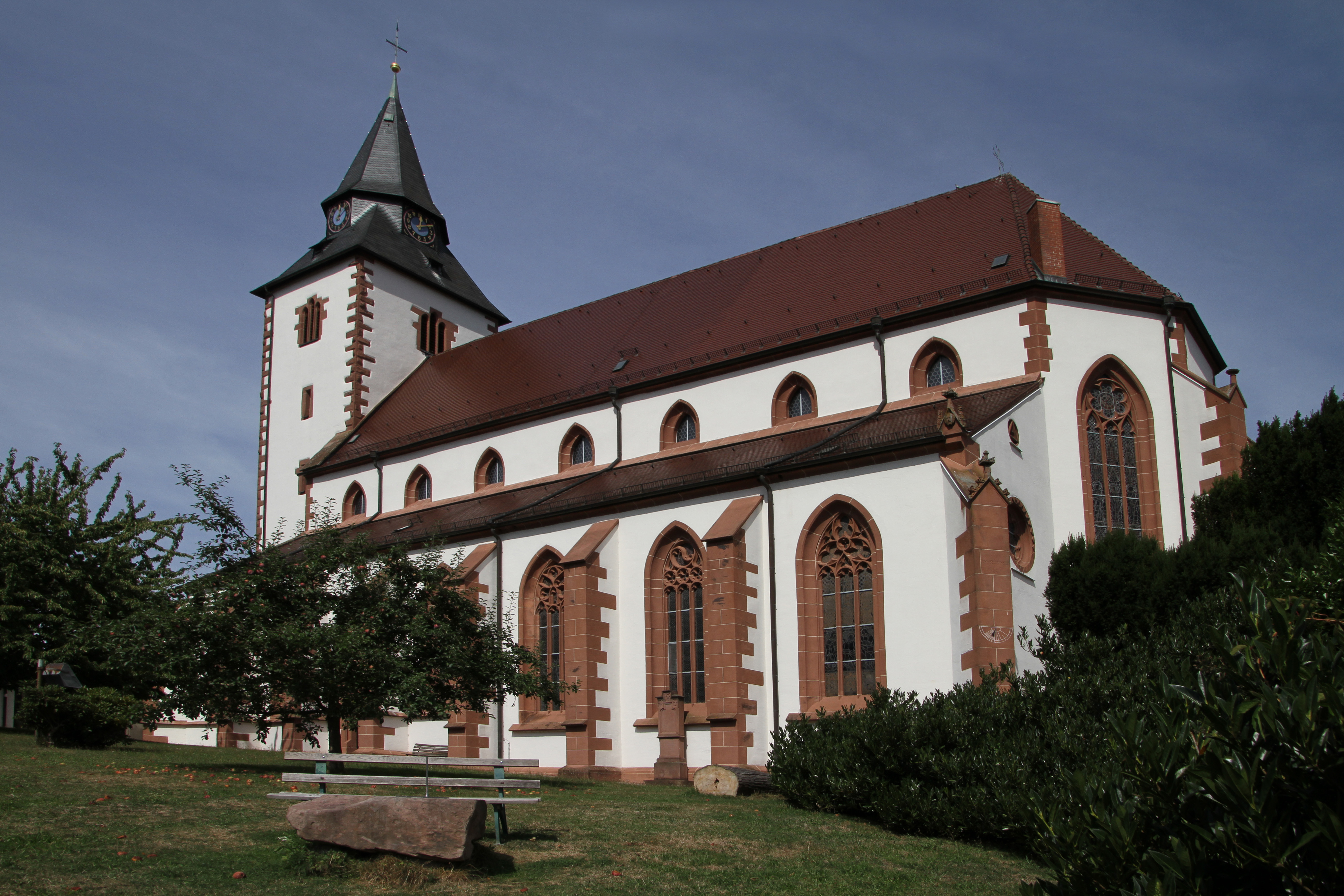 Church Liebfrauen in Gernsbach.